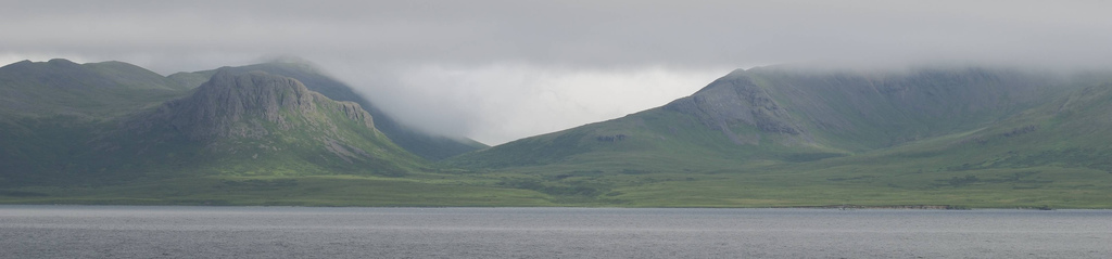 Paul Island, Alaska